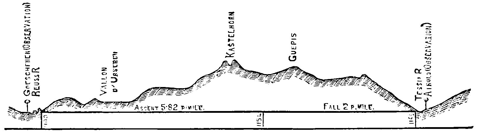 Profile of the Gotthard tunnel